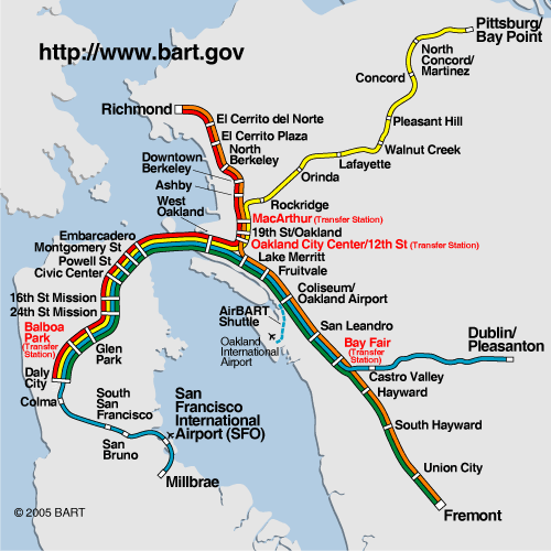 BART web map effective to the September 12, 2005 changes to service south of Daly City